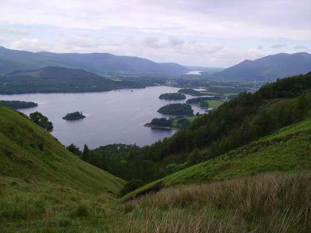 Above Cat Gill Looking up Derwent Water from the path above the Gill